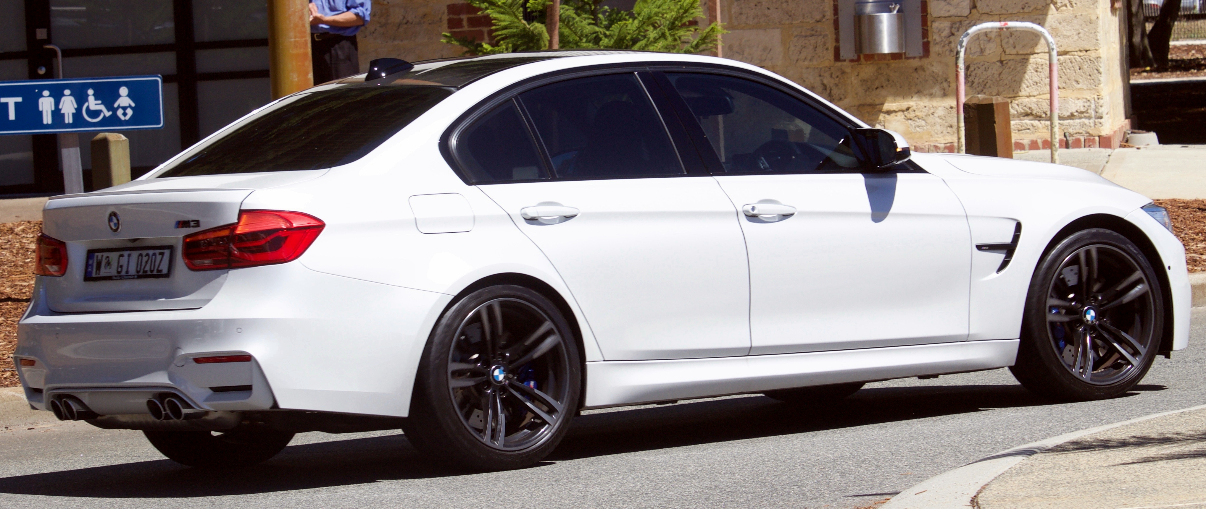 2016 BMW M3 (F80) sedan. Photographed in Fremantle, Western Australia, Australia.